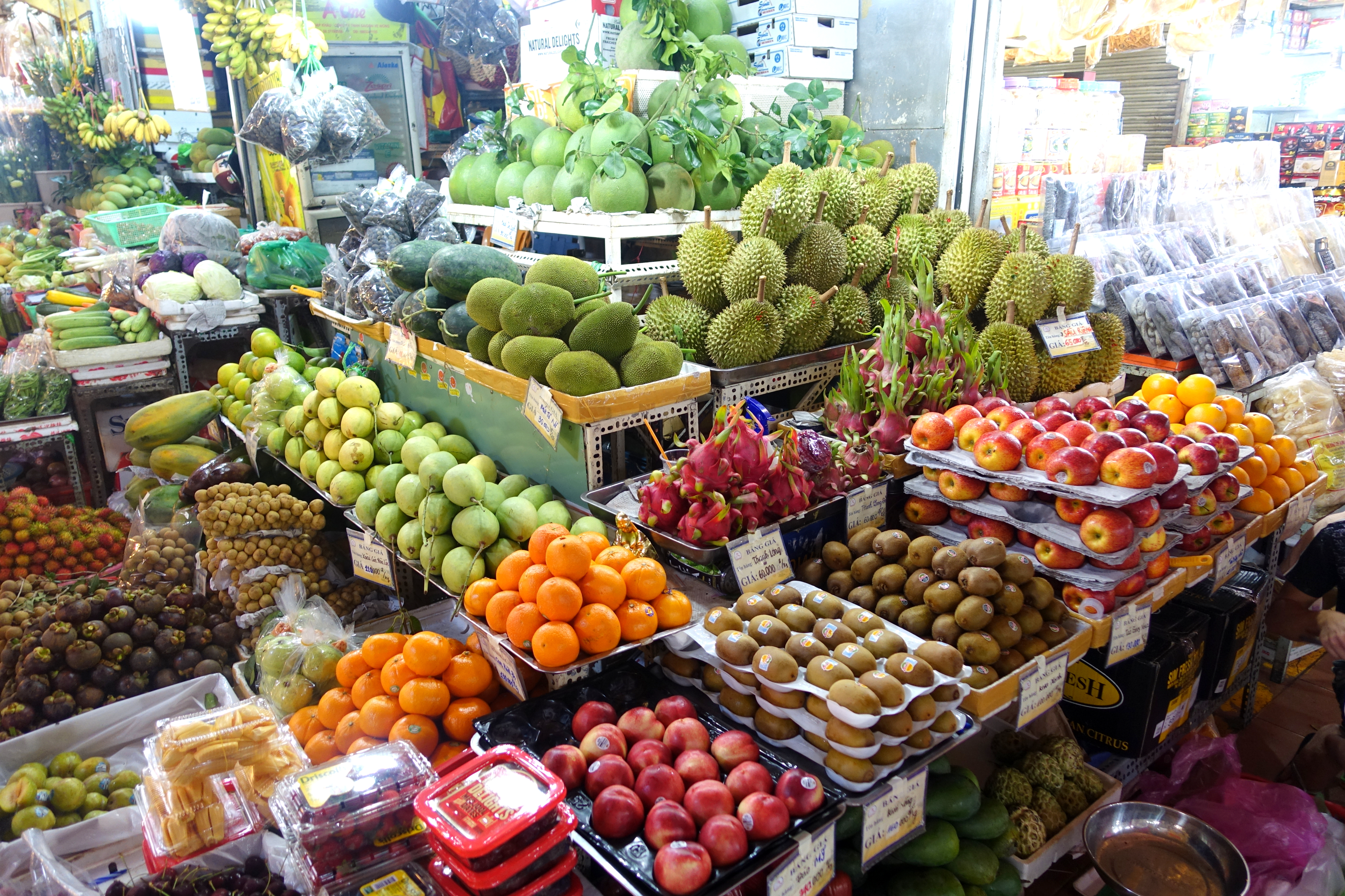 Produce in Bến Thành Market (Chợ Bến Thành) - Ho Chi Minh City, Vietnam.